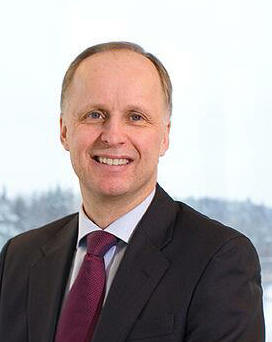 Kimmo Alkio, CEO, Tieto Corporation